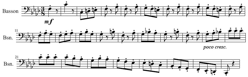 The theme of the broom from Paul Dukas orchestral scherzo, The Sorcerer's Apprentice (L'apprenti sorcier)